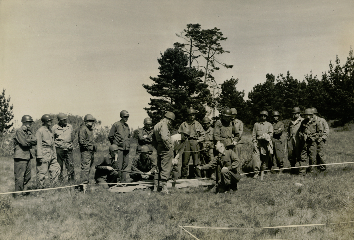 Civil Affairs Staging Area (CASA) soldiers use tape to layout out a civilian camp for displaced persons.